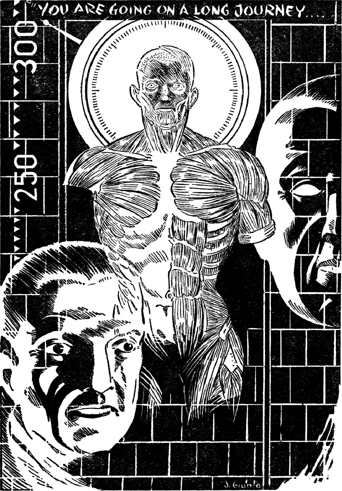 Drawing of a skinless torso, overlaid on a large set of weighing scales, overlaid on a monochrome brick wall; with disembodied, silhouettes of heads on either side. The caption near the top reads "You are going on a long journey..." and weights from the scale are shown vertically along the left-hand side (reading "250" and "300"). Main illustration for the story "Tell Your Fortune". Internal illustration from the pulp magazine Weird Tales (May 1950, vol. 42, no. 4, page 6).